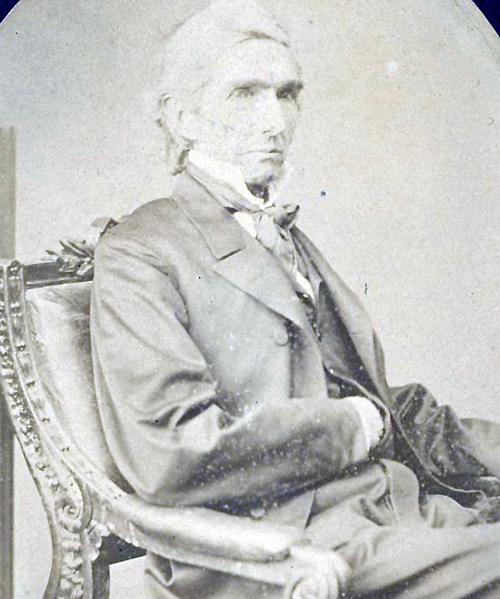 Daniel Polsley, US Representative from West Virginia